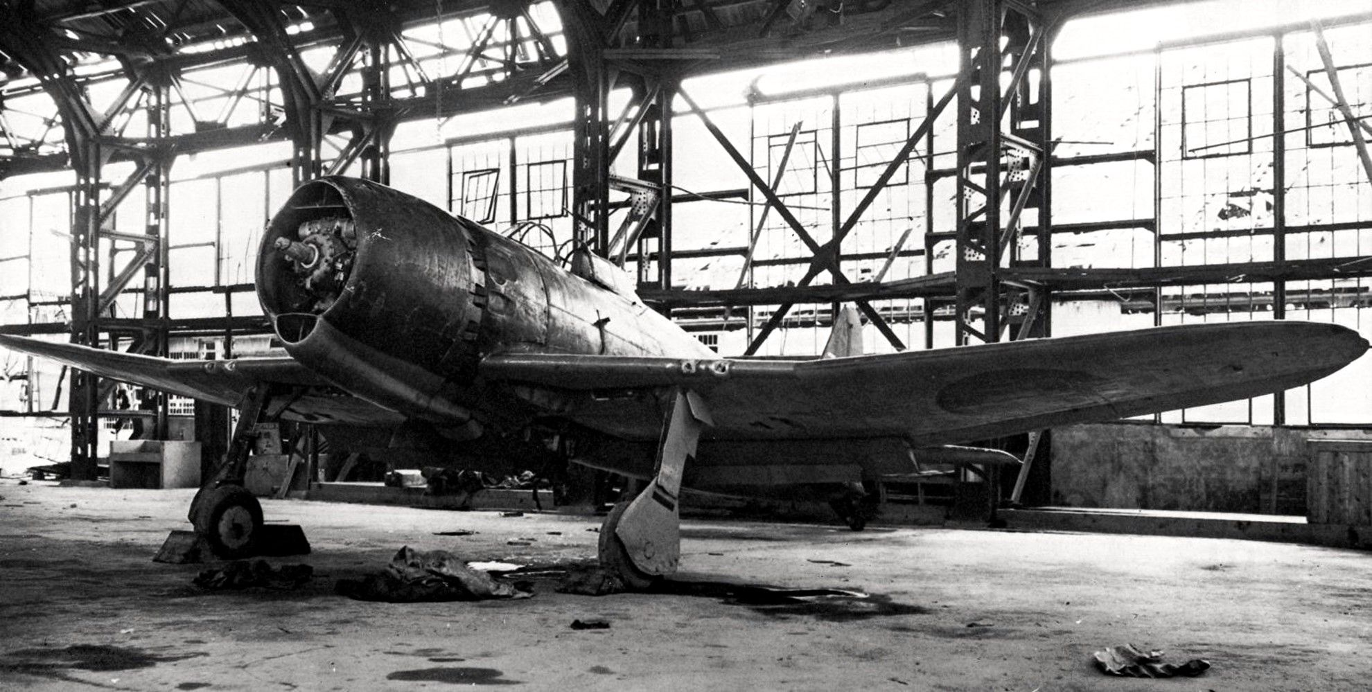 A Mitsubishi A7M2 Reppū ("Strong Gale") in a hangar, after the end of the Second World War, circa in late 1945.